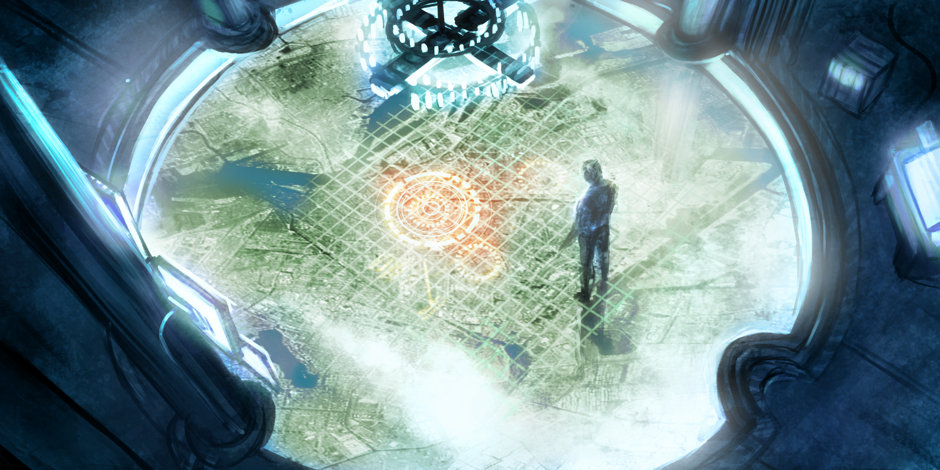 Artwork done by David Revoy for the preproduction of the fourth open movie of the Blender Foundation 'Tears of Steel' ( project Mango ).